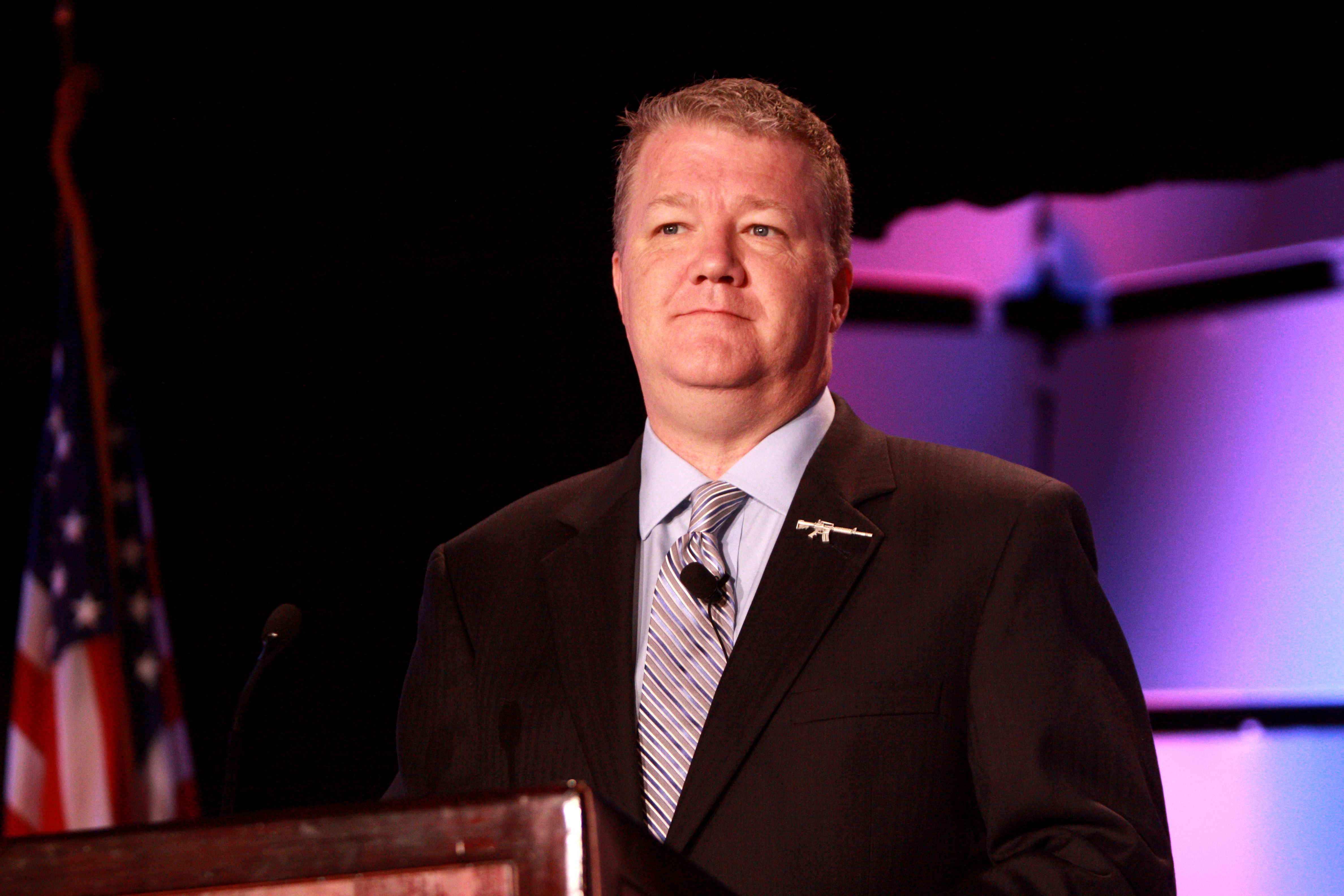 Dudley Brown speaking at the 2013 Liberty Political Action Conference (LPAC) in Chantilly, Virginia.